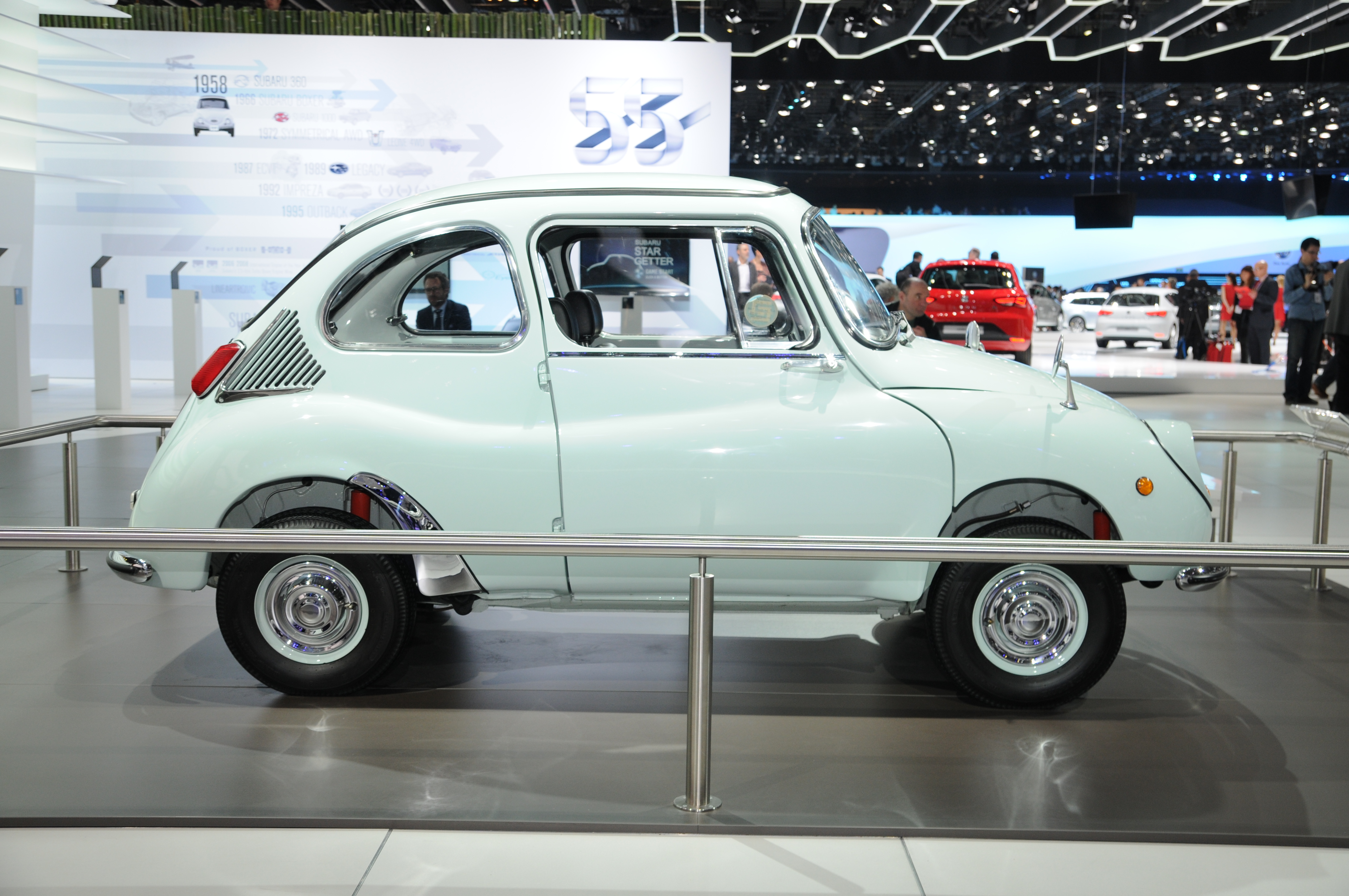 Geneva Motor Show 2013 (photos taken on the first press day)